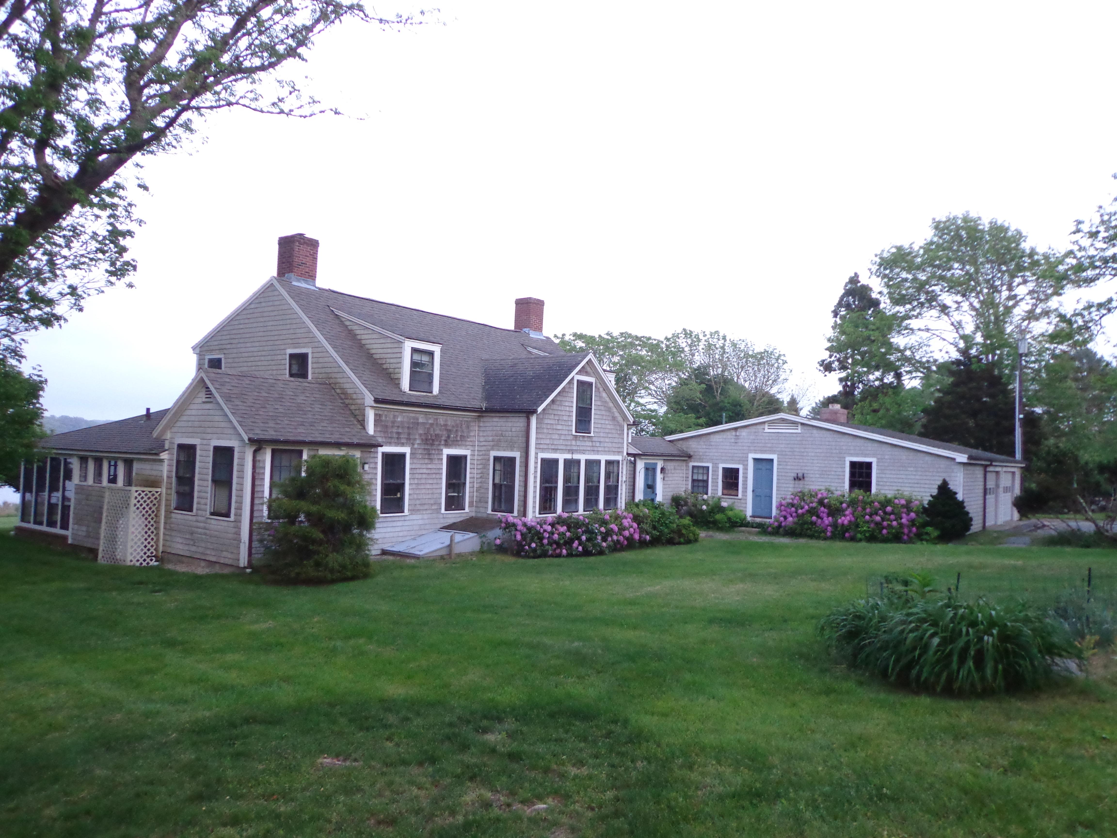 This is a shot of the landmarked "Paul Cuffe Farm" from the northeast. The farmhouse is located at 1504 Drift Road in Westport, Massachusetts and was at one time thought to be built by Paul Cuffe. Subsequent research has shown that Cuffe probably never owned this property. It was added to the National Register of Historic Places in 1974.